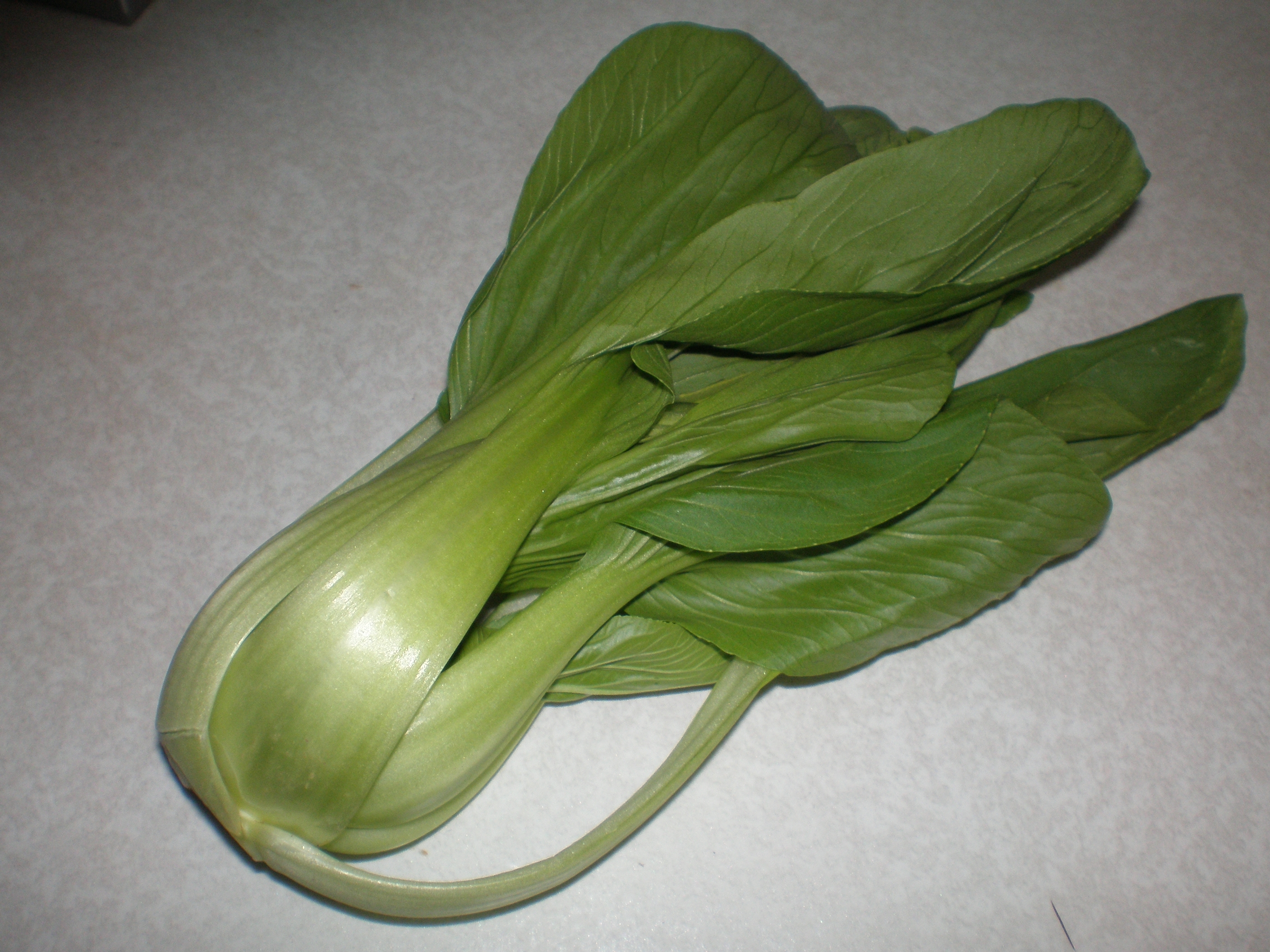 Brassica rapa var. chinensis leaves.